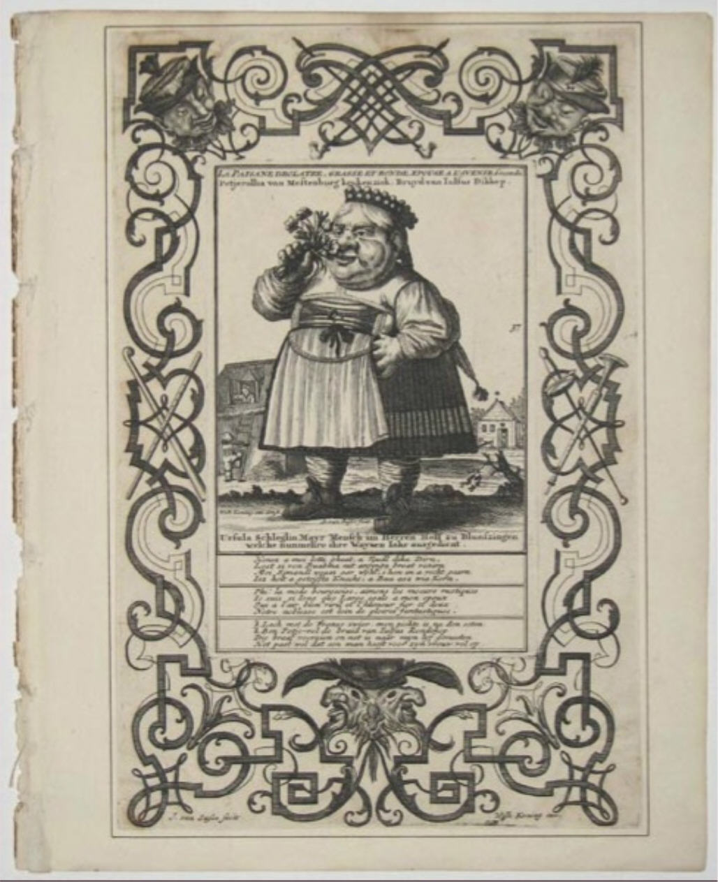 La Paisane Drolatre, Grasse et Ronde, Espouse a L'Avenir feconde. [The ridiculous peasant-girl, vulgar and fat, future fertile wife.] J. van Sasse fecit. Wilh: Koning exc. [n.d., c.1720s.] Etching with engraved lettering set into decorative engraved border printed from separate plate, sheet 265 x 175mm. 10½ x 7". Trimmed to plate and glued to album page. A grotesque caricature of a country girl sniffing a bunch of flowers, villagers and their houses in the background. Text in German, French and Dutch below. Numbered '37' in image to right, presumably from a satirical series. Engraved by Joost van Sasse, published probably in Amsterdam by Wilhelm Koningh.